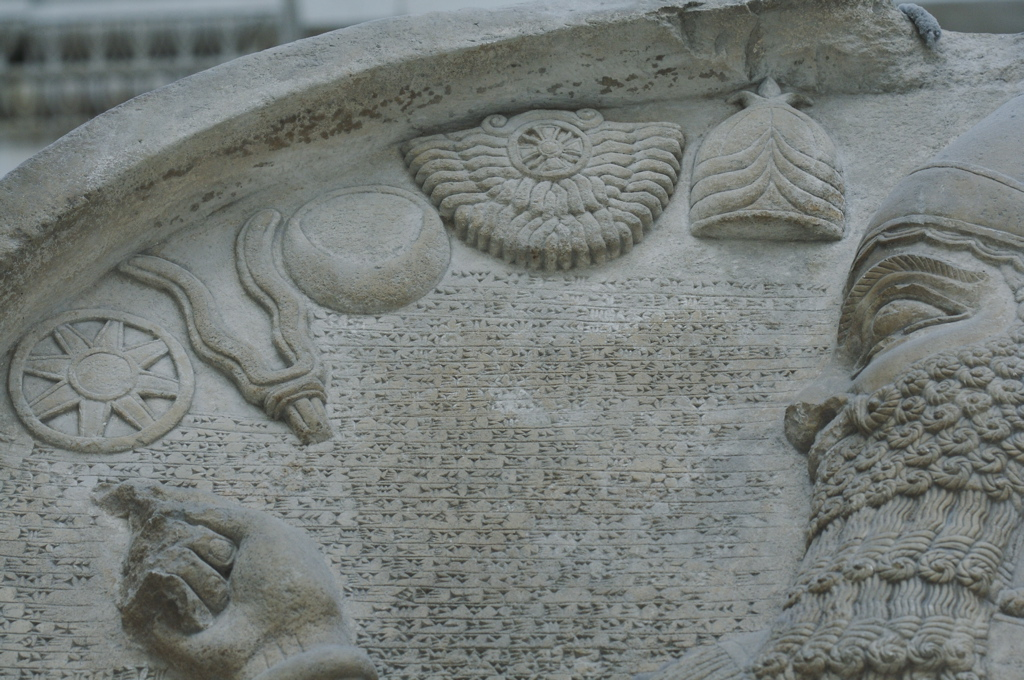 Stela of Ashurnasirpal II. From Nimrud (ancient Kalhu), northern Iraq. Neo-Assyrian, about 883-859 BC. [1] I had a wonderful day at the British Museum with CoryQ (of MonkeyRiverTown) and his wife Mary. These are everything I shot that day, unedited and uncleaned, except for shrinking them some to spead up the upload.